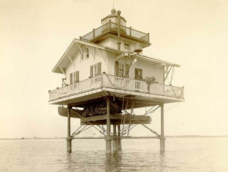 Somers Cove Light. Image has been cropped and converted to PNG format.